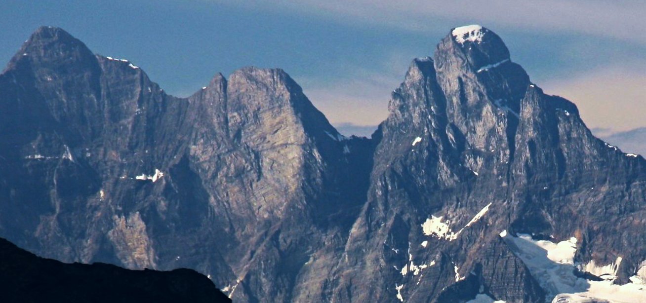 Mount Goodsir also called Goodsir Towers